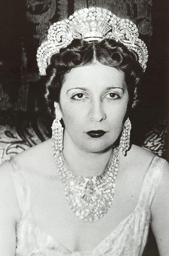 Sultana Nazli's coronation to be Queen Nazli